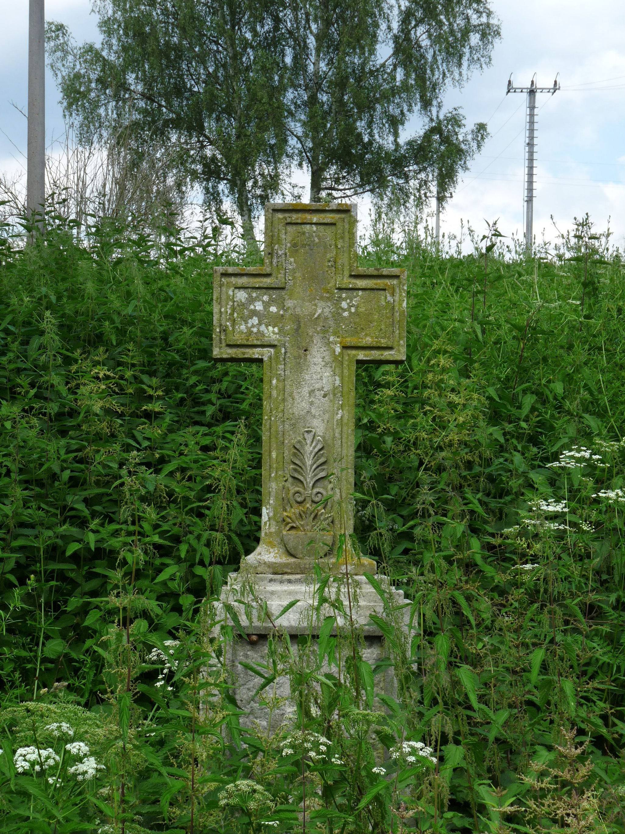 Wayside cross in the village of Miletínky, Prachatice District, South Bohemian Region, Czech Republic.